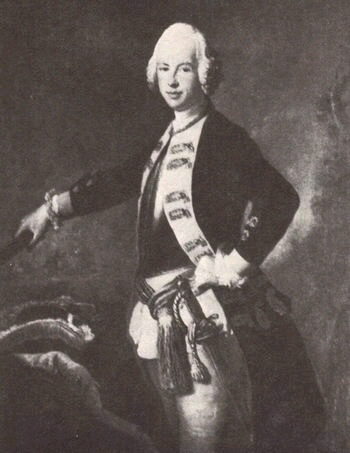 Louis IX, Landgrave of Hesse-Darmstadt (1719-1790)